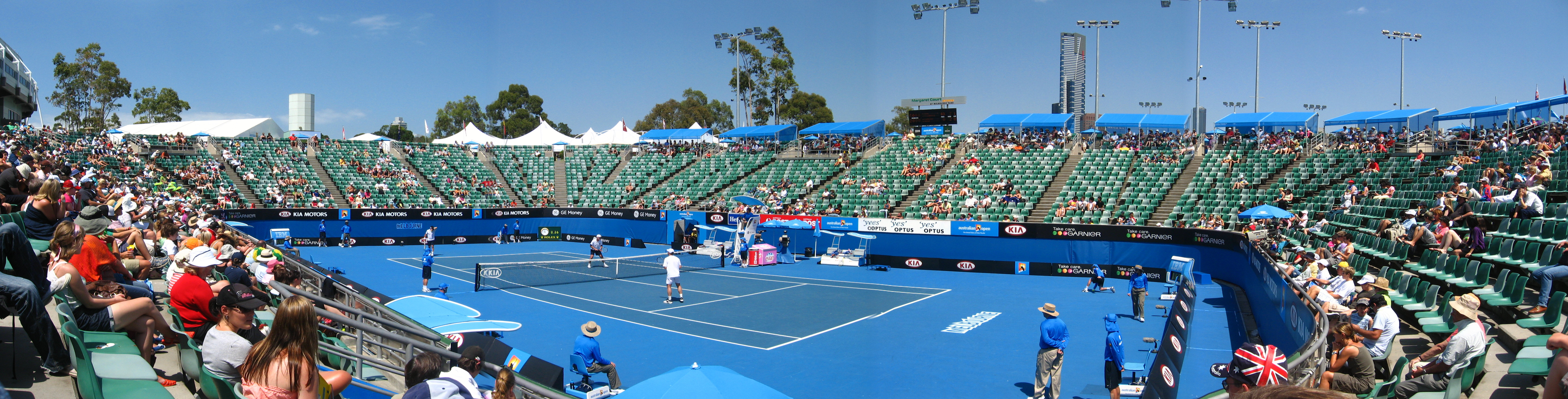 Margaret Court Arena at Melbourne Park during the 2008 Australian Open